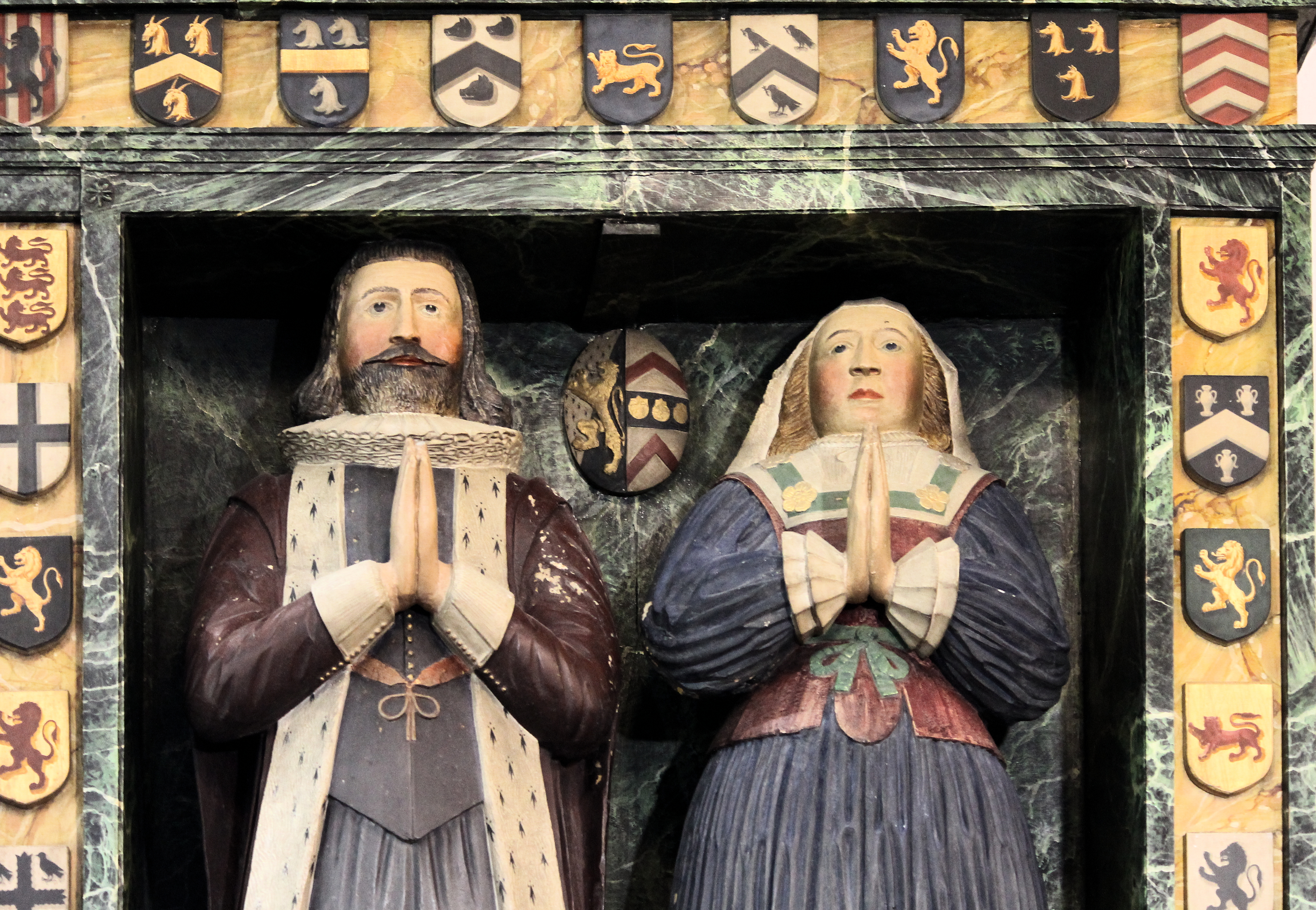 Margaret Trevanion (1565 - 1646) on a monument at Hope Church, Fflintshire, with his wife Margaret Trevanion (1565 - 1646). He was the second son of John Trevor of Trevalyn, Denbighshire, and the younger brother of Richard Trevor.